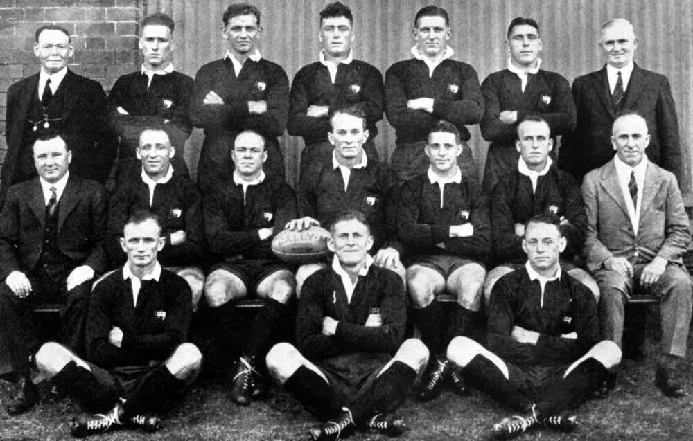 Aust Rugby League Kangaroos The Australian Kangaroos before the first of three Tests played against England in Jun/July 1932: Back row: Alex Burdon (mgr), Wally Prigg, Mick Madsen, Dan Dempsey, Joe Pearce, Cliff Pearce, unidentified official. Seated: Harry Sunderland (mgr), Eric Weissel, Ernie Norman, Herb Steinohrt (c) Hec Gee, J Little, unidentified official. Front:Frank McMillan, Fred Laws, Joe Wilson.